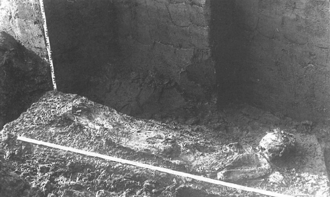 Bog body "Husbäke Man" in situ at the time of his excavation in 1936.